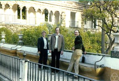 From left:Gert-Martin Greuel, Peter Slodowy, Ragnar-Olaf Buchweitz, Singularity Conference, La Rabida/Sevilla 1981